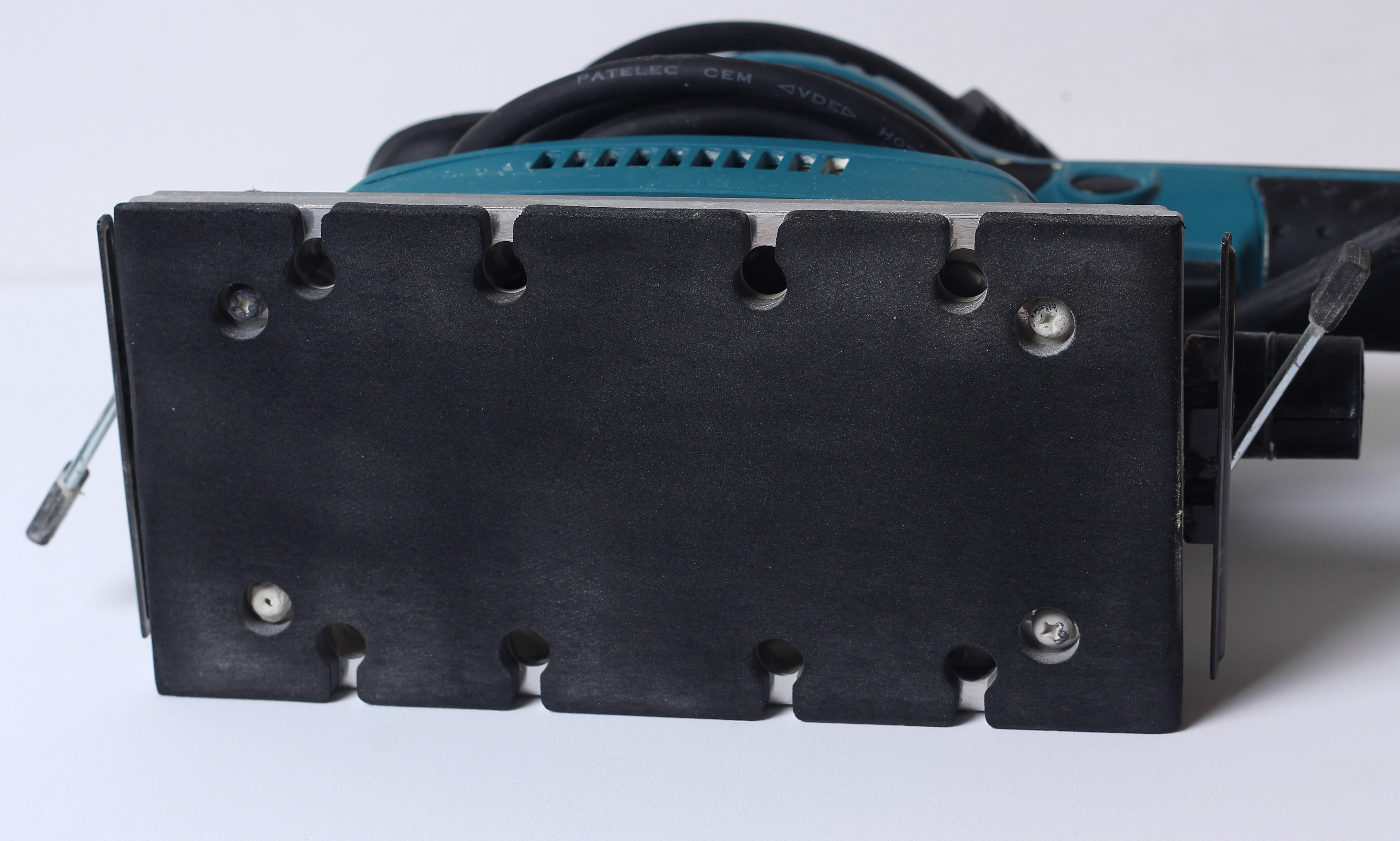 Sander is a power tool.